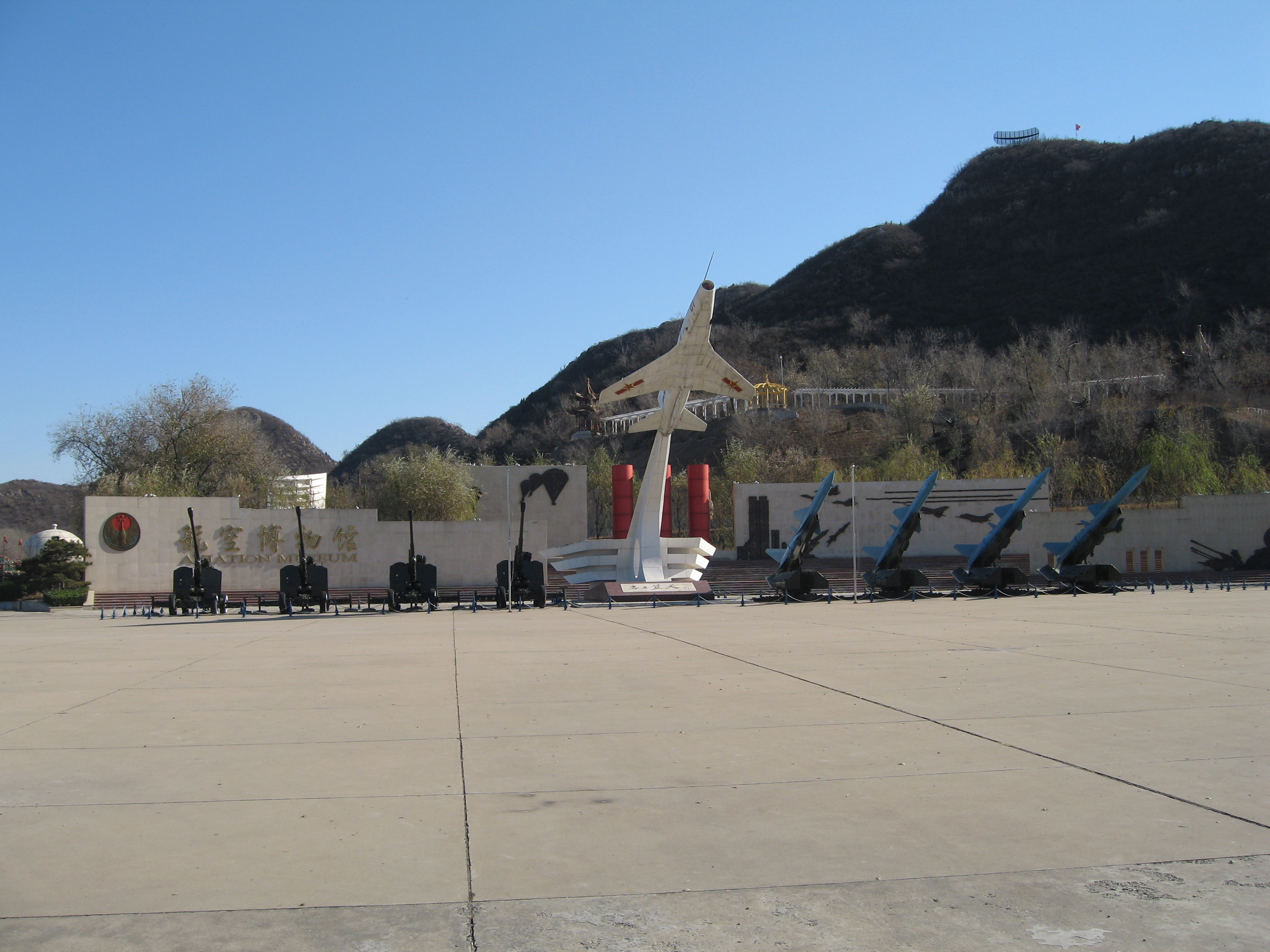 China Aviation Museum